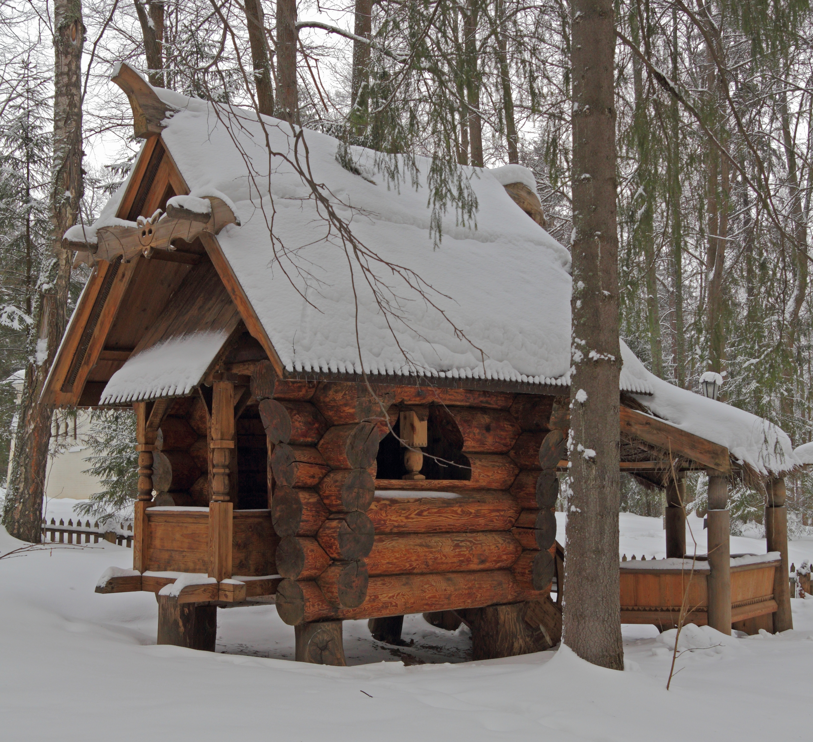 Abramtsevo museum-reserve in Moscow Oblast, Russia. Hut on Chicken Legs.